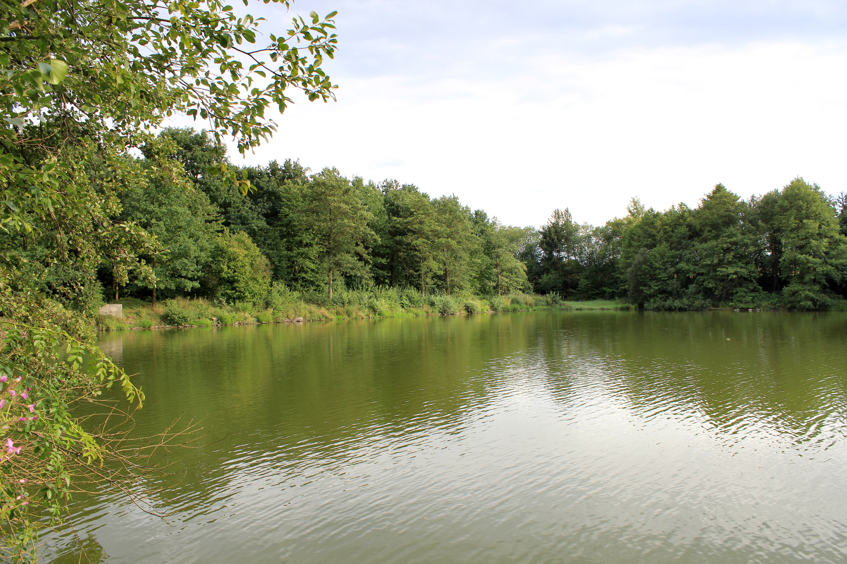 Lochusický pond by Lochousice, Czech Republic.